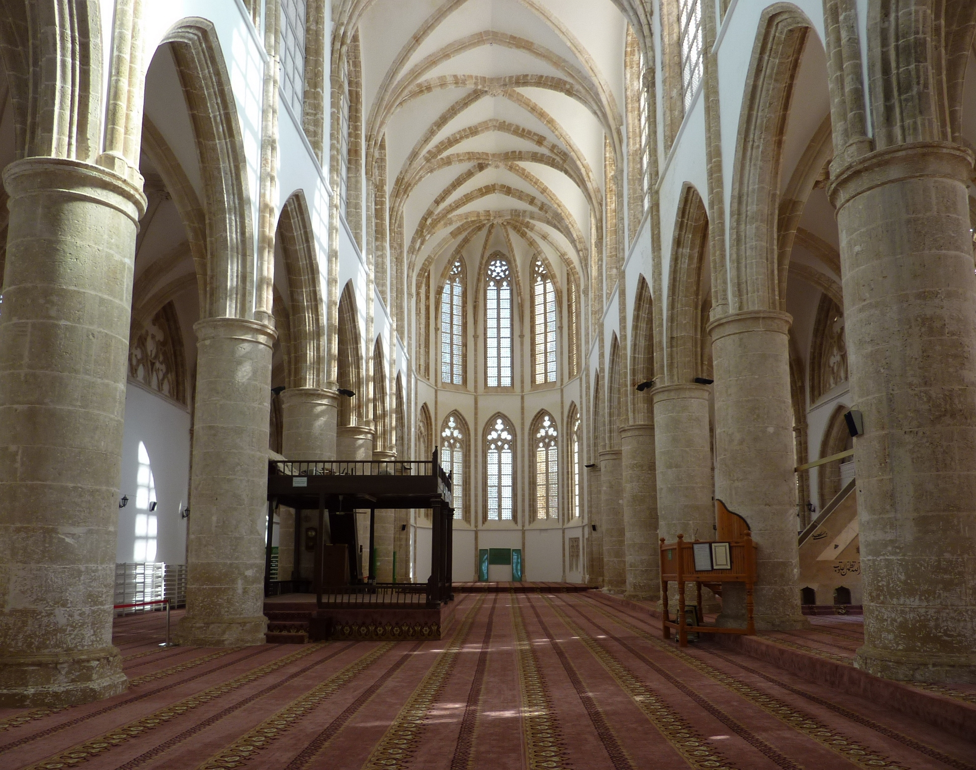 Lala Mustafa Pasha Mosque (Saint Nicholas Cathedral, Famagusta)